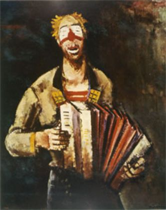 Clown with accordeon